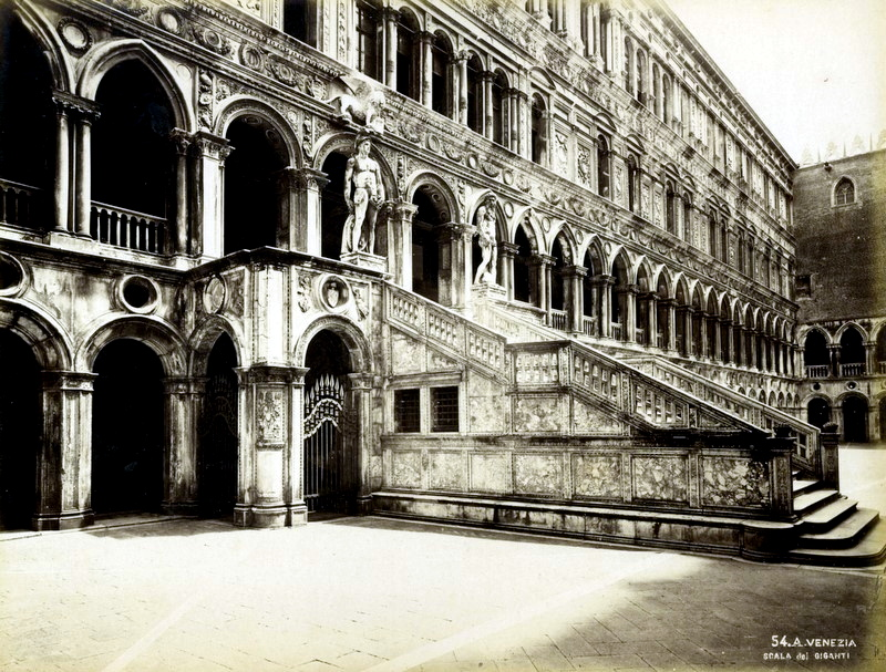 Carlo Naya (1822-1881) - "Venice - Staircase of the giants". Catalogue #: 54 A.